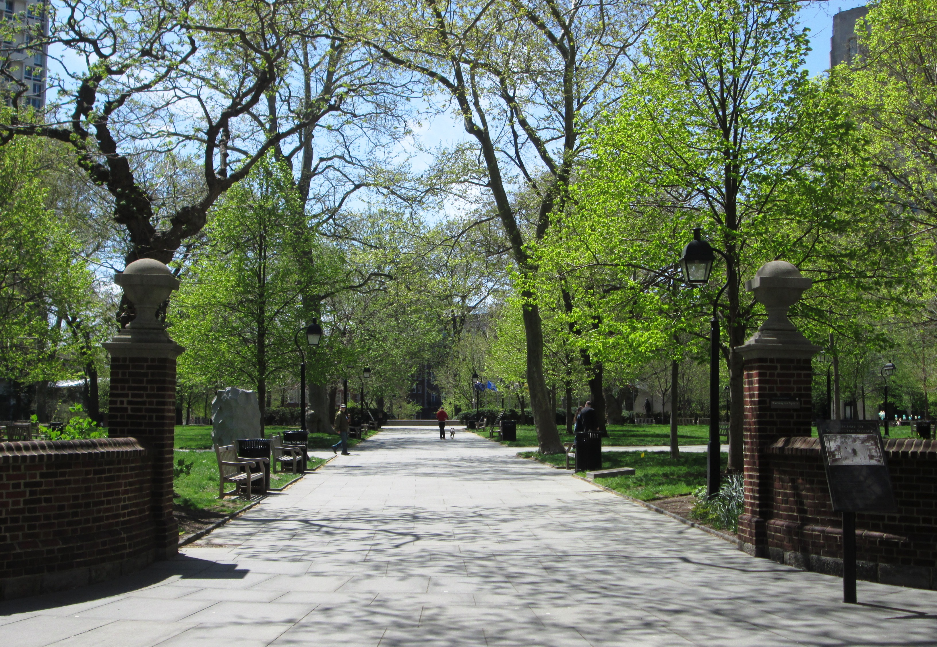 The northeast entrance to Washington Square in Philadelphia.